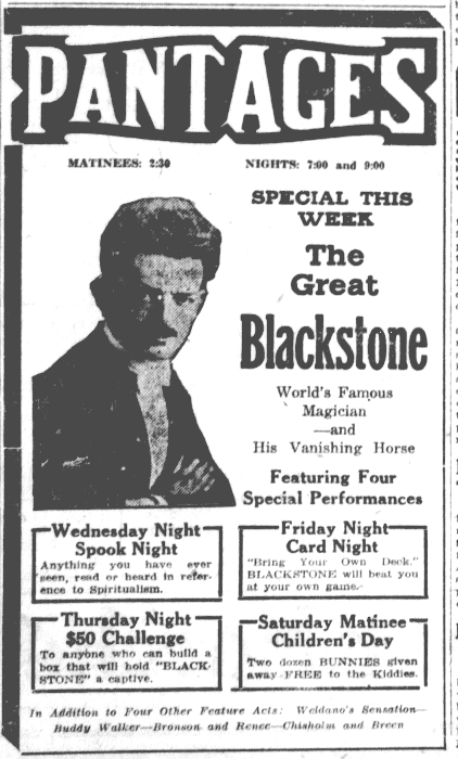 Newspaper ad for the Great Blackstone in Seattle. Lightened by the uploader so the image of Blackstone was clearer.